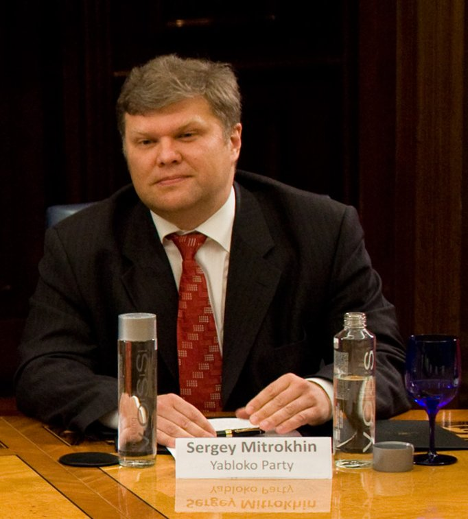 Sergey Mitrokhin, the leader of the Russian Yabloko party since 2008.